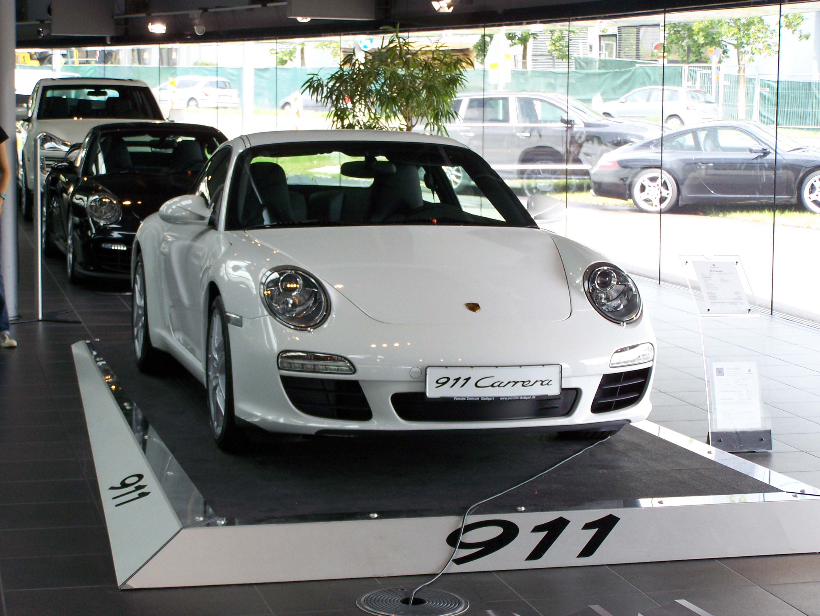 White 2008 Porsche 997 Carrera coupé. 唉，啥时候才能开一辆回家呢.911 Porsche